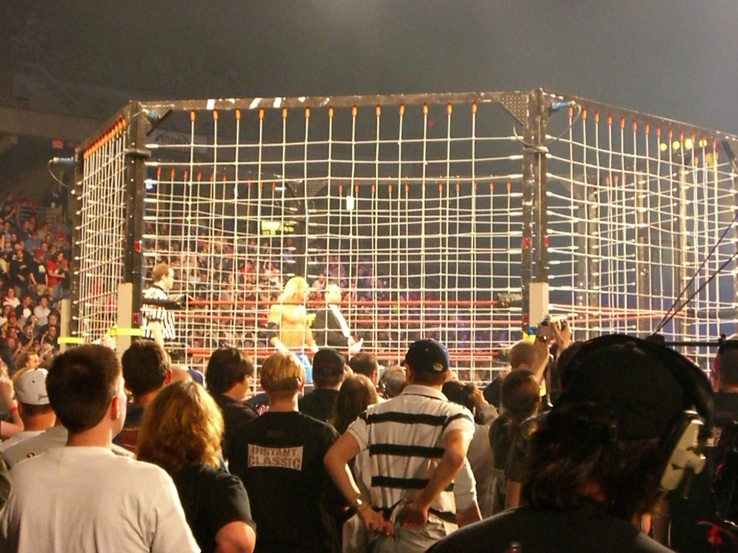 A Six Sides of Steel match at the TNA Lockdown 2007 pay-per-view event.